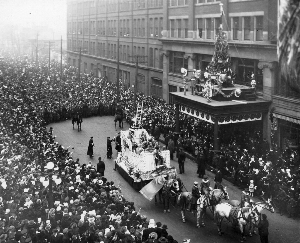 The Eaton's Santa Claus Parade on James Street, 1918, Toronto, Ontario, Canada. At the end of the parade, Santa would climb from his float up a ladder into the Eaton's department store.